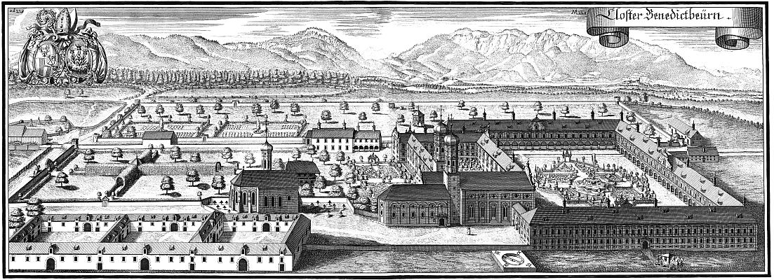 Kloster Benediktbeuern by Michael Wening